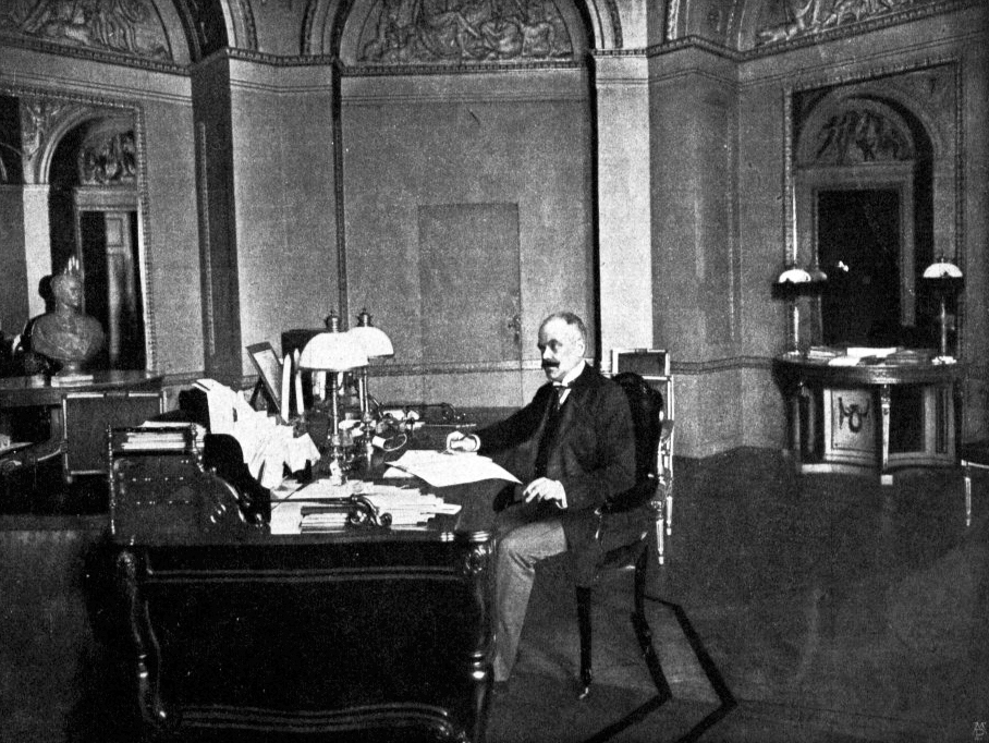 Ernest von Koerber (1850-1919), Prime Minister of Austria-Hungary, at his office.